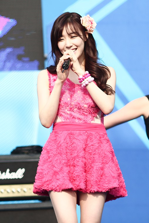 Tiffany at Gyeongbokgo Unity Festival, 25 May 2013